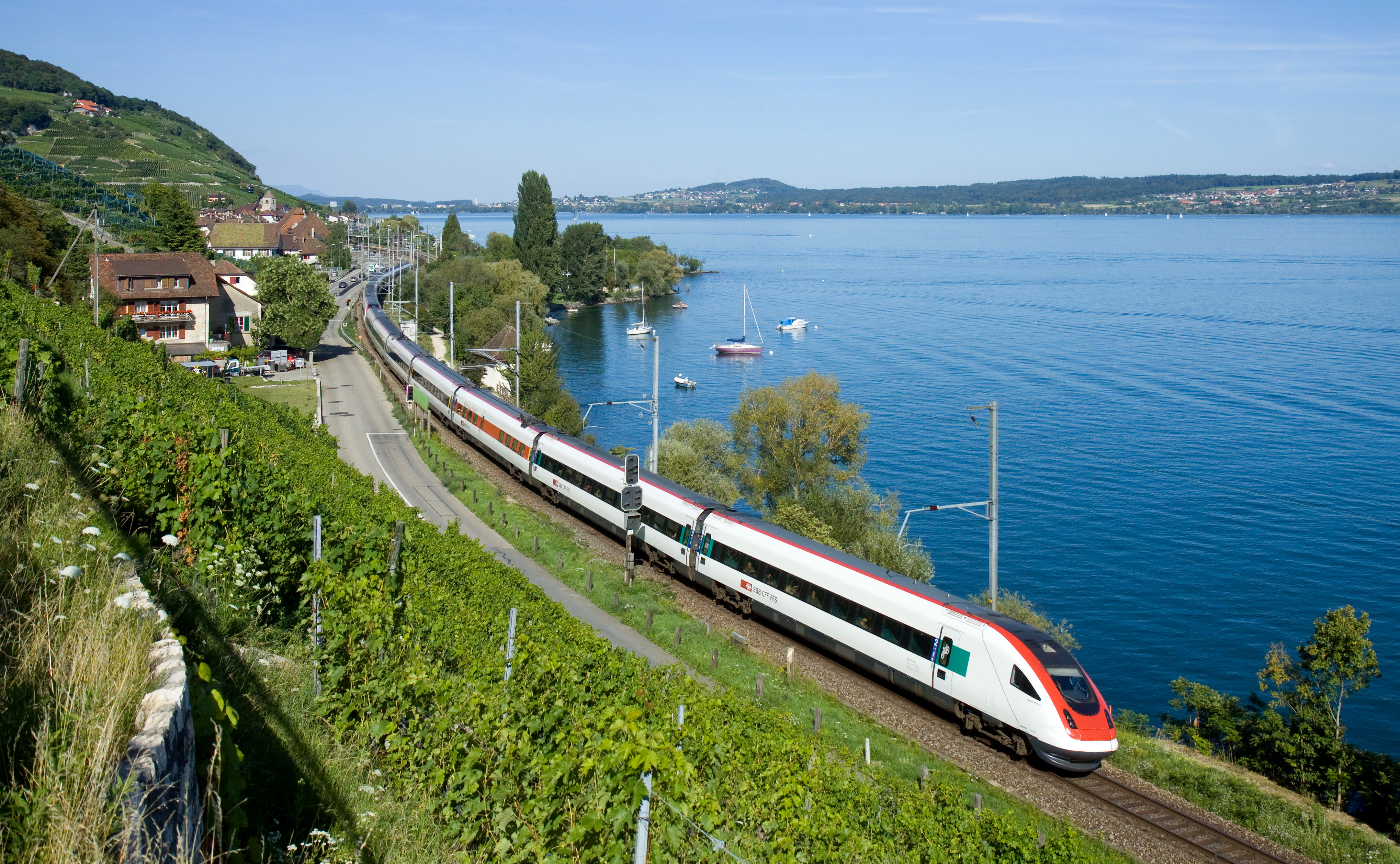 Two SBB RABDe 500 "ICN" tilting trains on the Jura foot railway line, at Twann, with Lake Biel in the back.